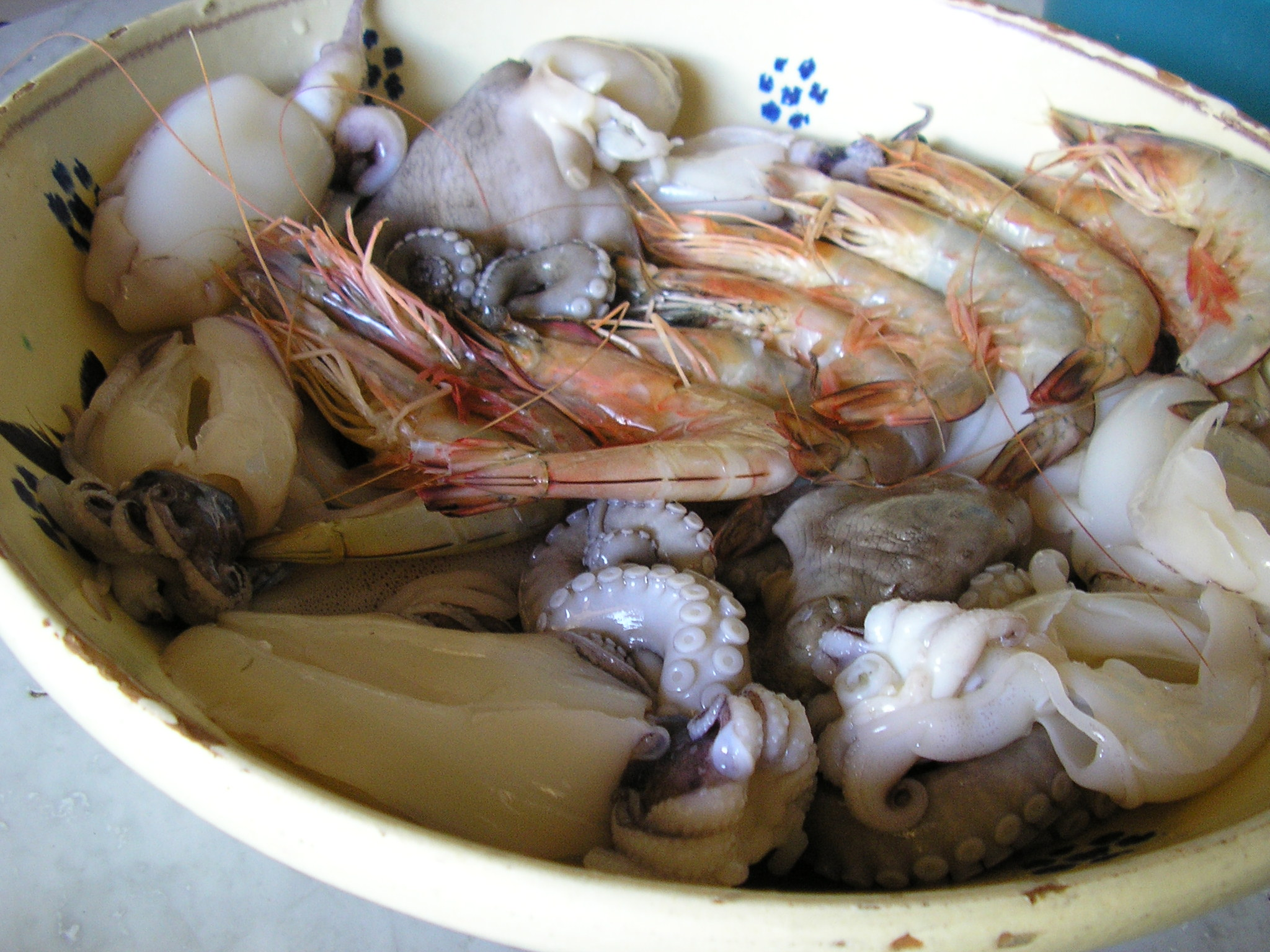 Description: Fishes in a tipical plate from Cutrofiano (LE) Source: The Doc